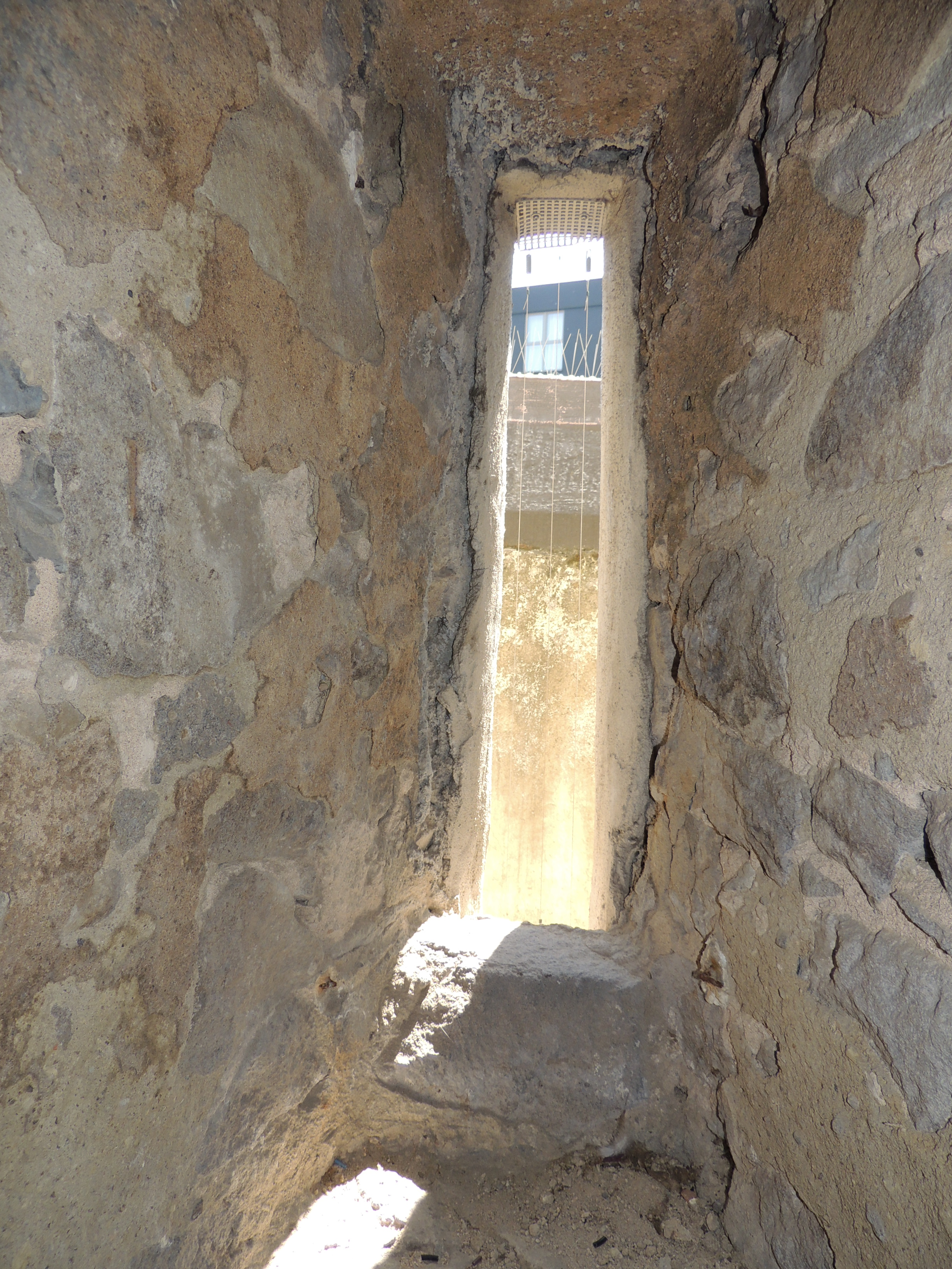 Embrasure of the Galluswarte in Frankfurt am Main-Gallus, situation in 2015